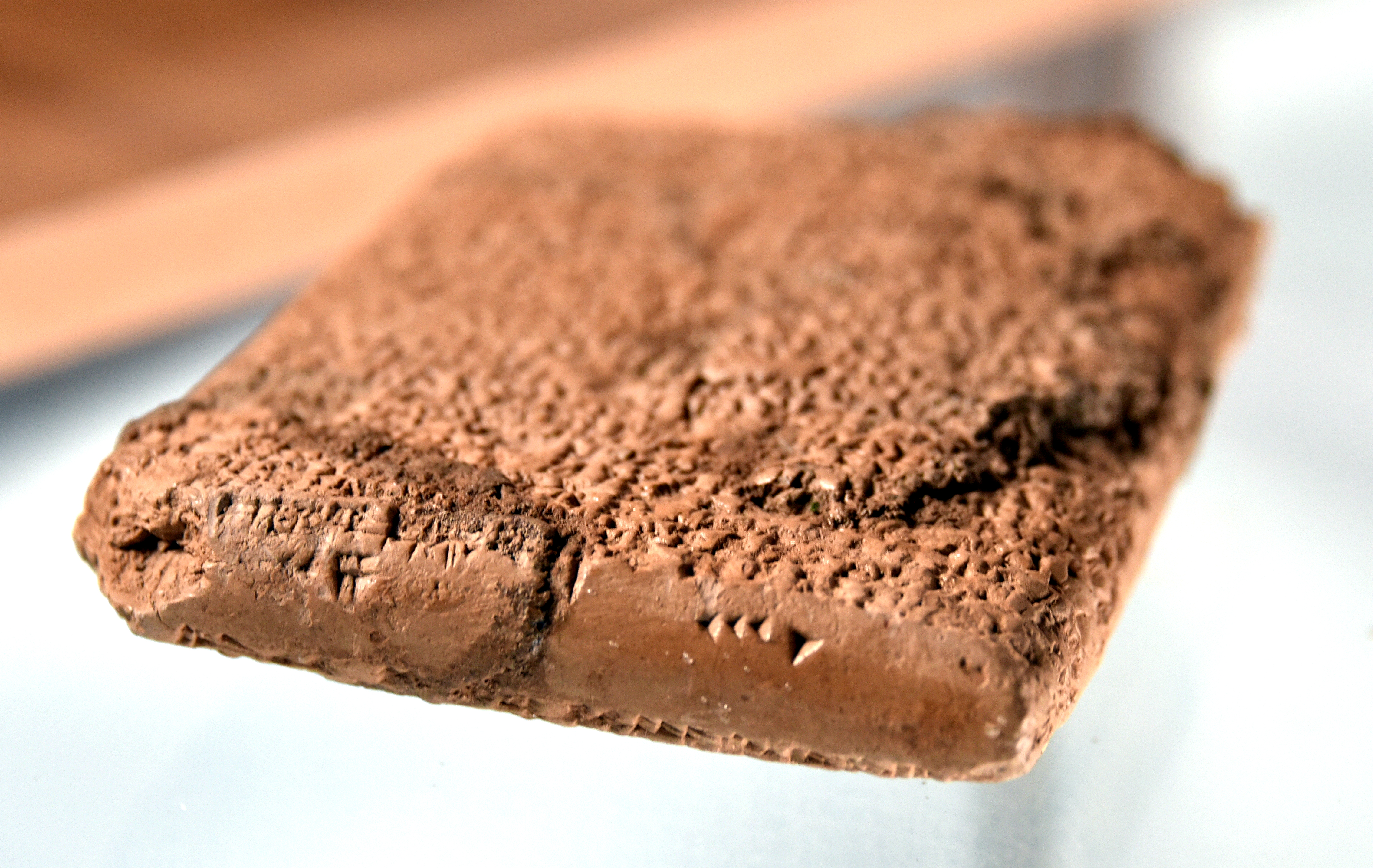 Clay tablet. the story of Gilgamesh and Aga. Old Babylonian period, 2003-1595 BCE. Purchase. From southern Iraq; precise provenance unknown. Sulaymaniyah Museum, Iraqi Kurdistan.